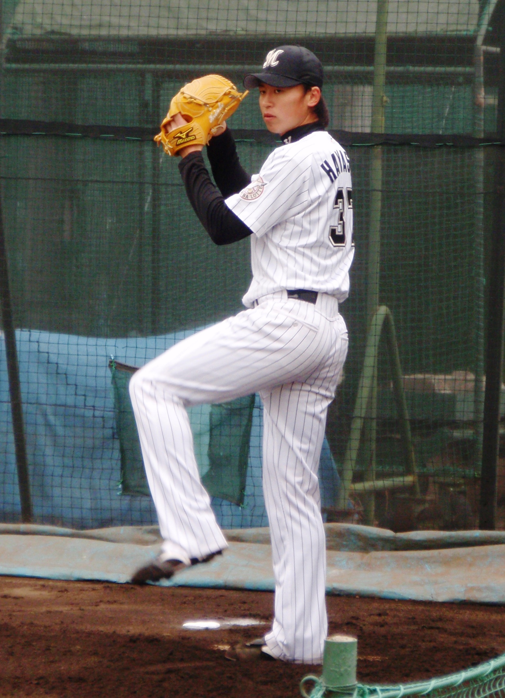 Keisuke Hayashi, pitcher of the Chiba Lotte Marines, at Lotte Urawa Baseball Ground.